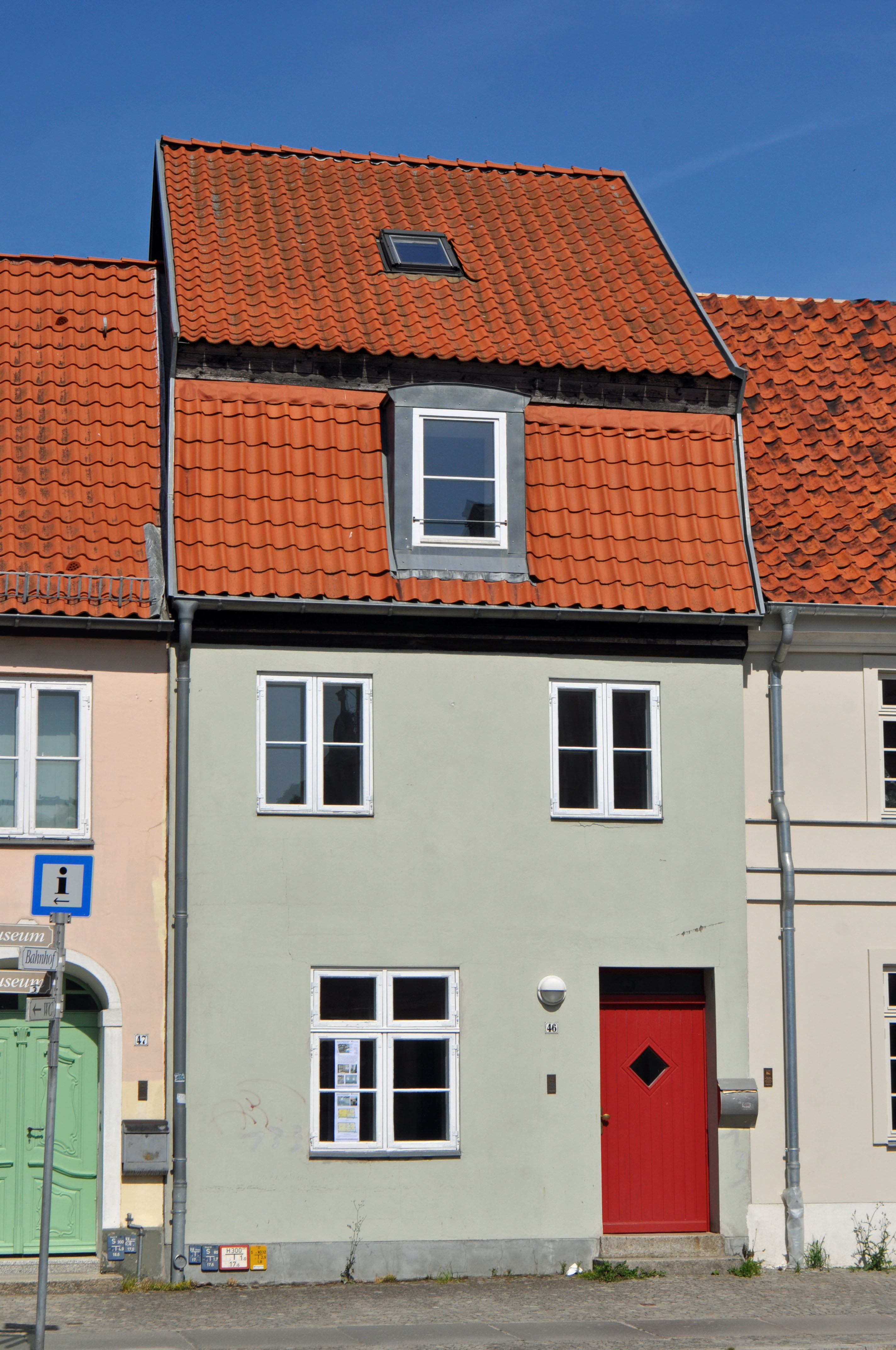 Stralsund, Wasserstraße 46 This is a photograph of an architectural monument.